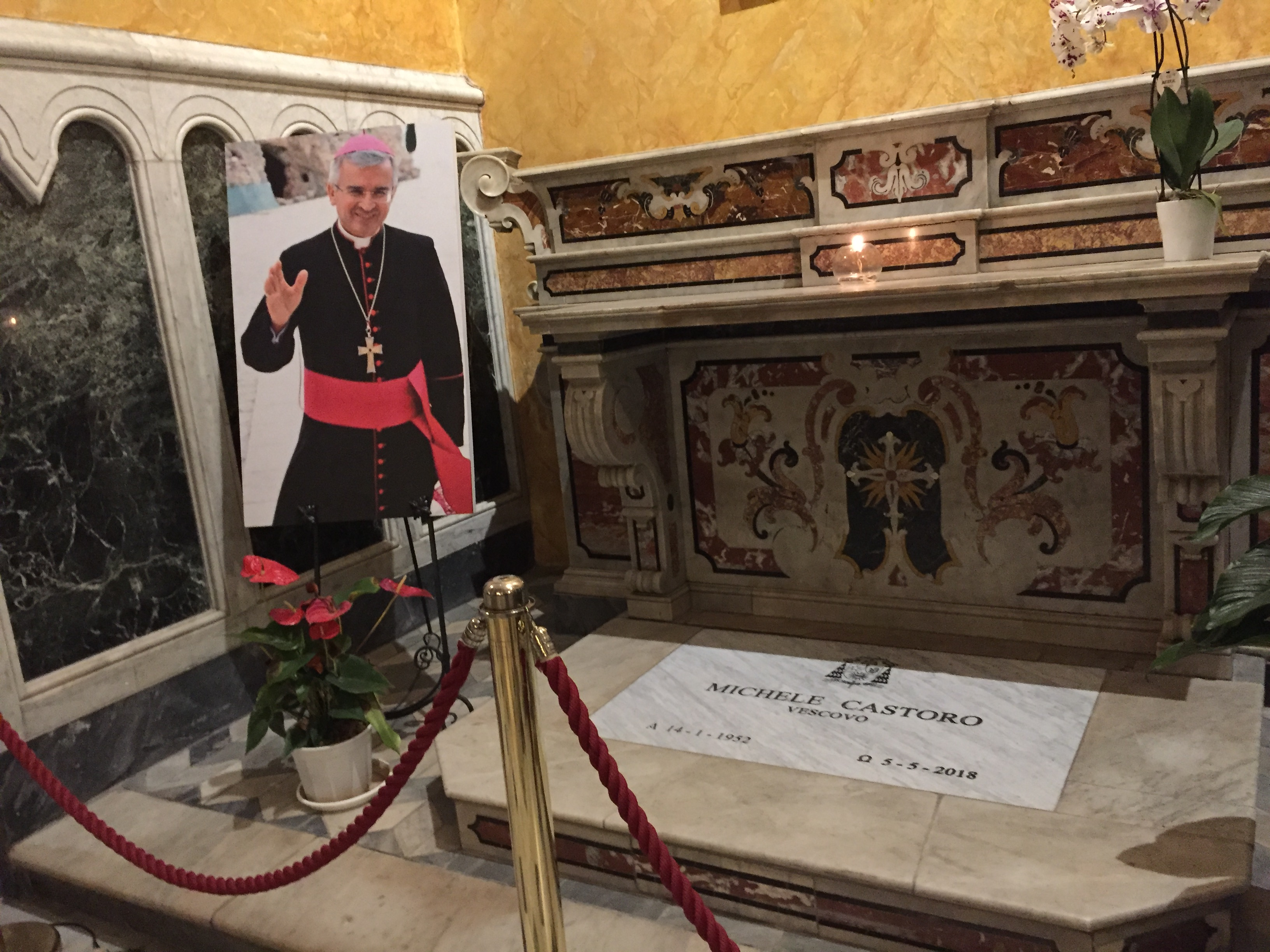 Altamura Cathedral - Tomb of Msgr. Michele Castoro